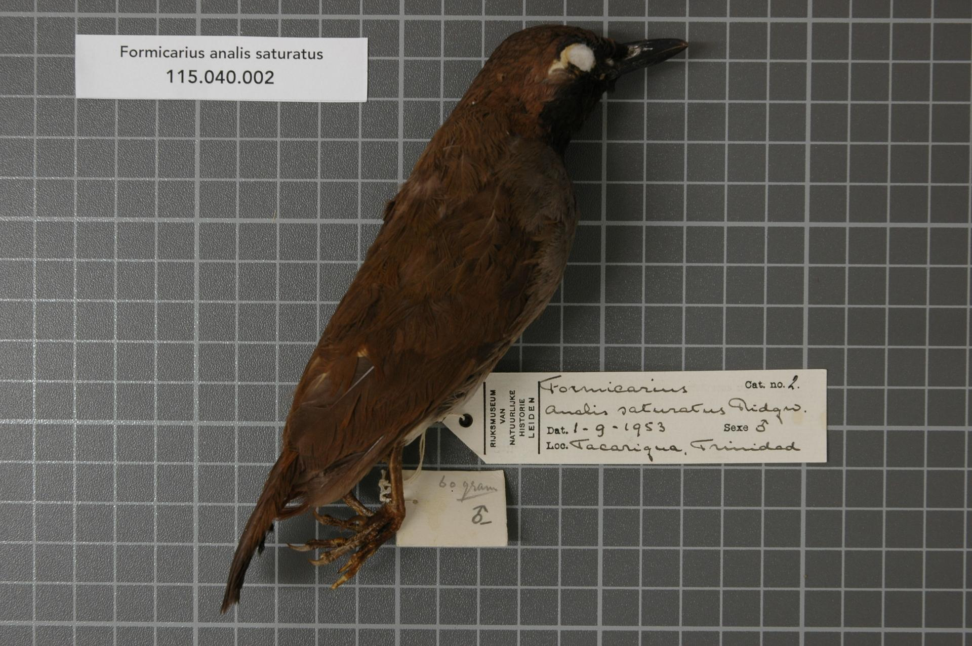 Formicarius analis saturatus Ridgway, 1893